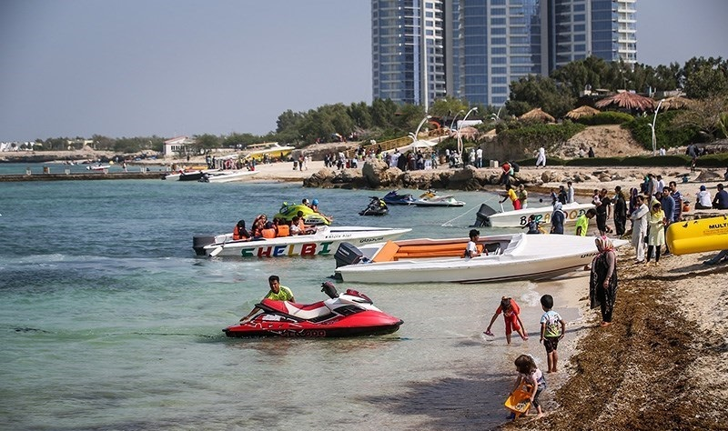 Kish Island's Marine leisure